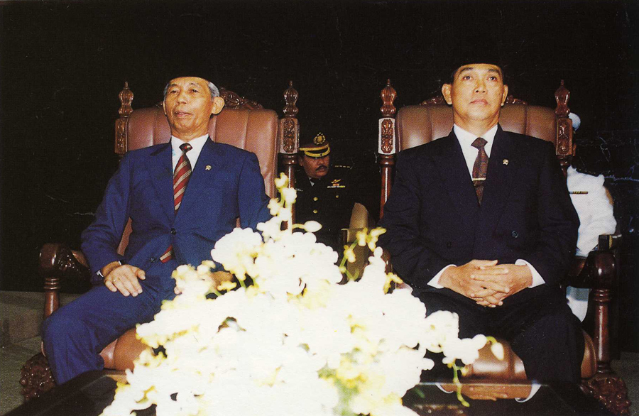 Incumbent Vice President Sudharmono and Vice President-elect Try Sutrisno at the 1993 session of the People's Consultative Assembly